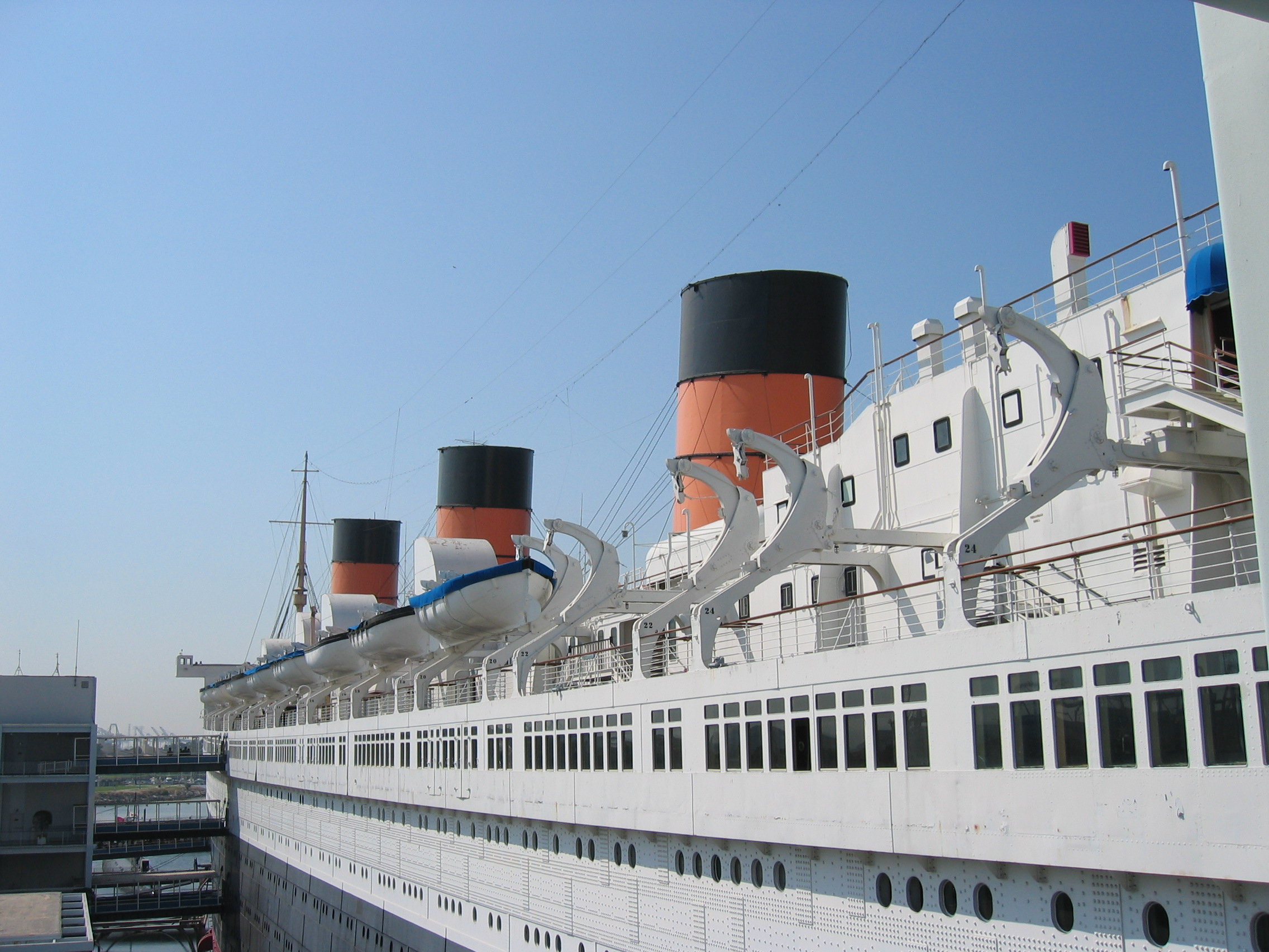 Boarding the Queen Mary